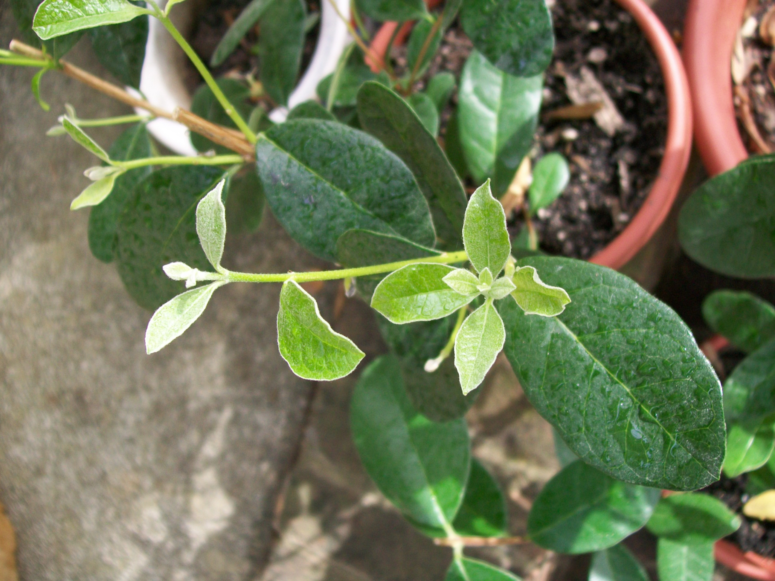 New growth on young feijoa cutting